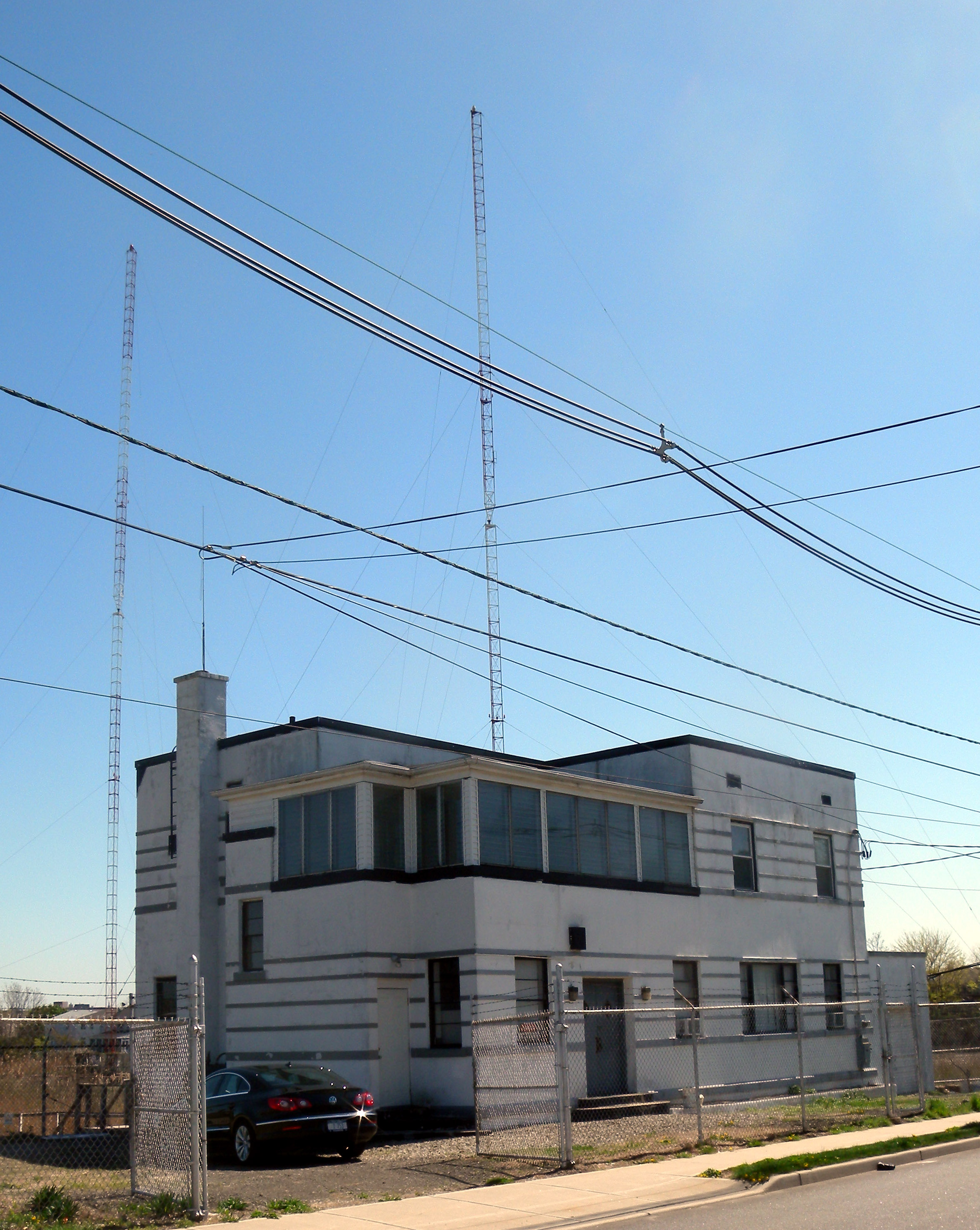 Looking south across Radio Avenue at WWRL transmitter on a sunny midday. See File:WWRL 4 towers jeh.jpg for southern view of all four towers.